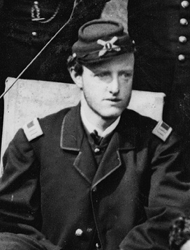 Captain Alanson Merwin Randol, commanding Batteries B & G, 1st U.S. Artillery.